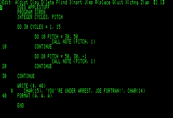 UCSD Fortran Screenshot